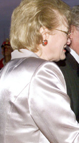 CHISINAU. President Vladimir Putin and his spouse Lyudmila welcomed by President of Moldova Petru Lucinschi and his spouse Antonina at Chisinau Airport.